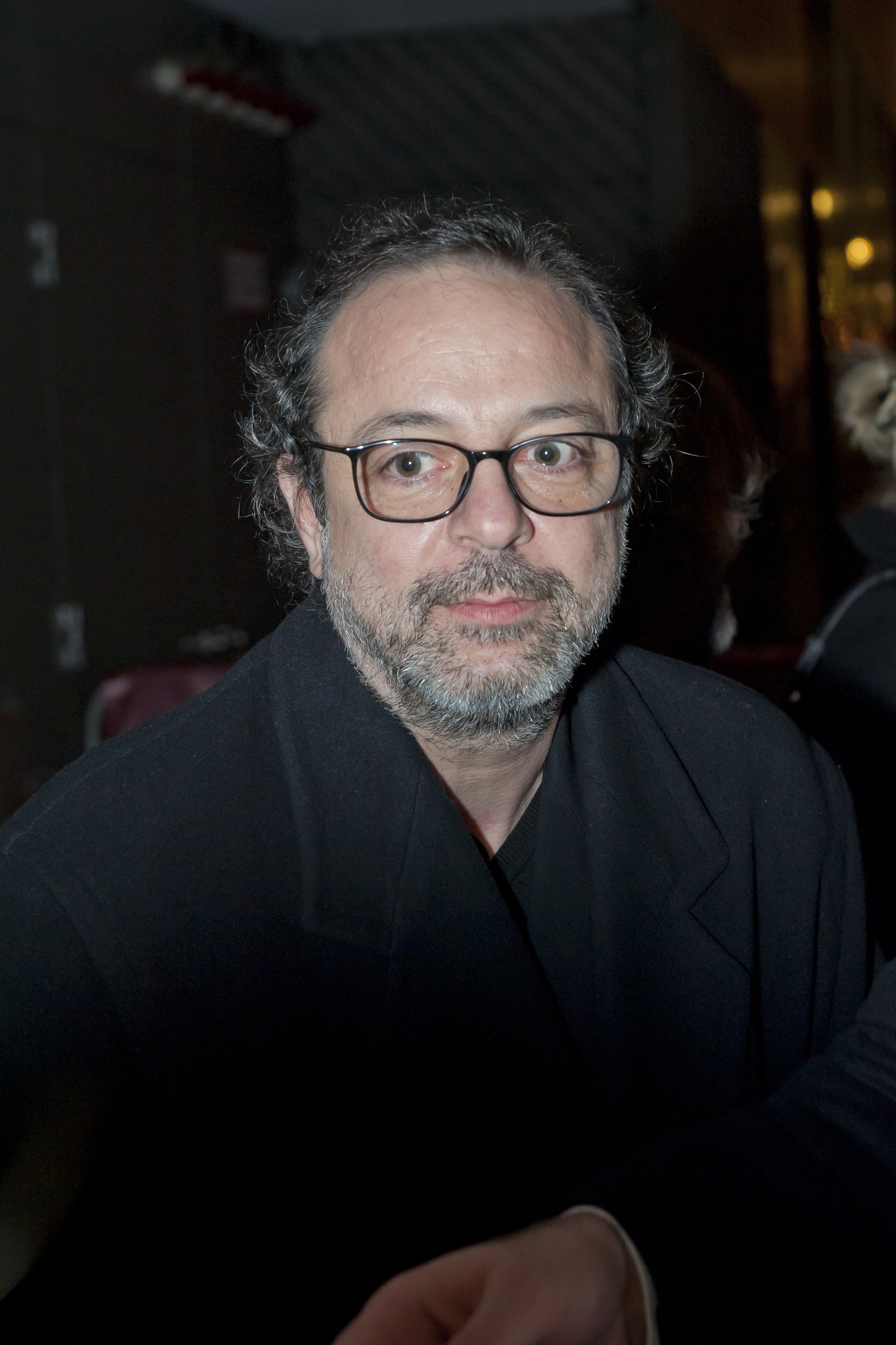 Turkish playwright, film director and producer Semih Kaplanoğlu His film "Bal" won the Golden Bear at the 60th Berlin International Film Festival